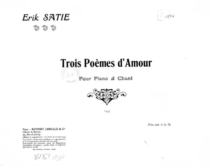 Cropped, adjusted version of PD image from the Bibliothèque nationale de France, made available on Gallica